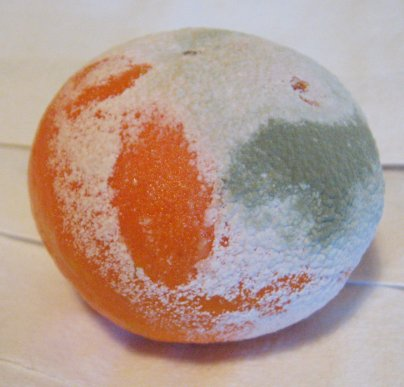 Mildew infested orange. One spot treated with Nystatin